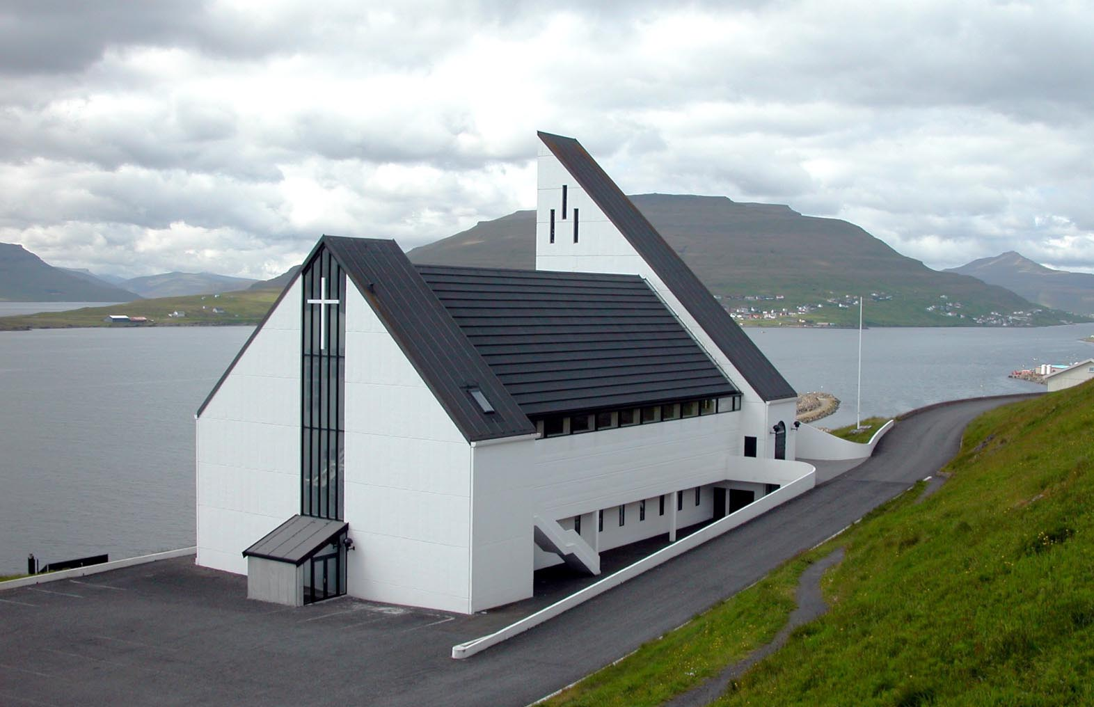 The Frederik's Church of Nes (Eysturoy) at the Skálafjørður in Eysturoy, Faroe Islands